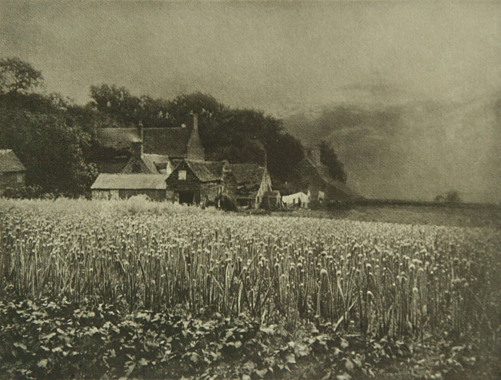 The photograph, taken through a pinhole in 1890 and entitled "An Old Farmstead", was reproduced in Vol. 18 of Camera Work in 1907.